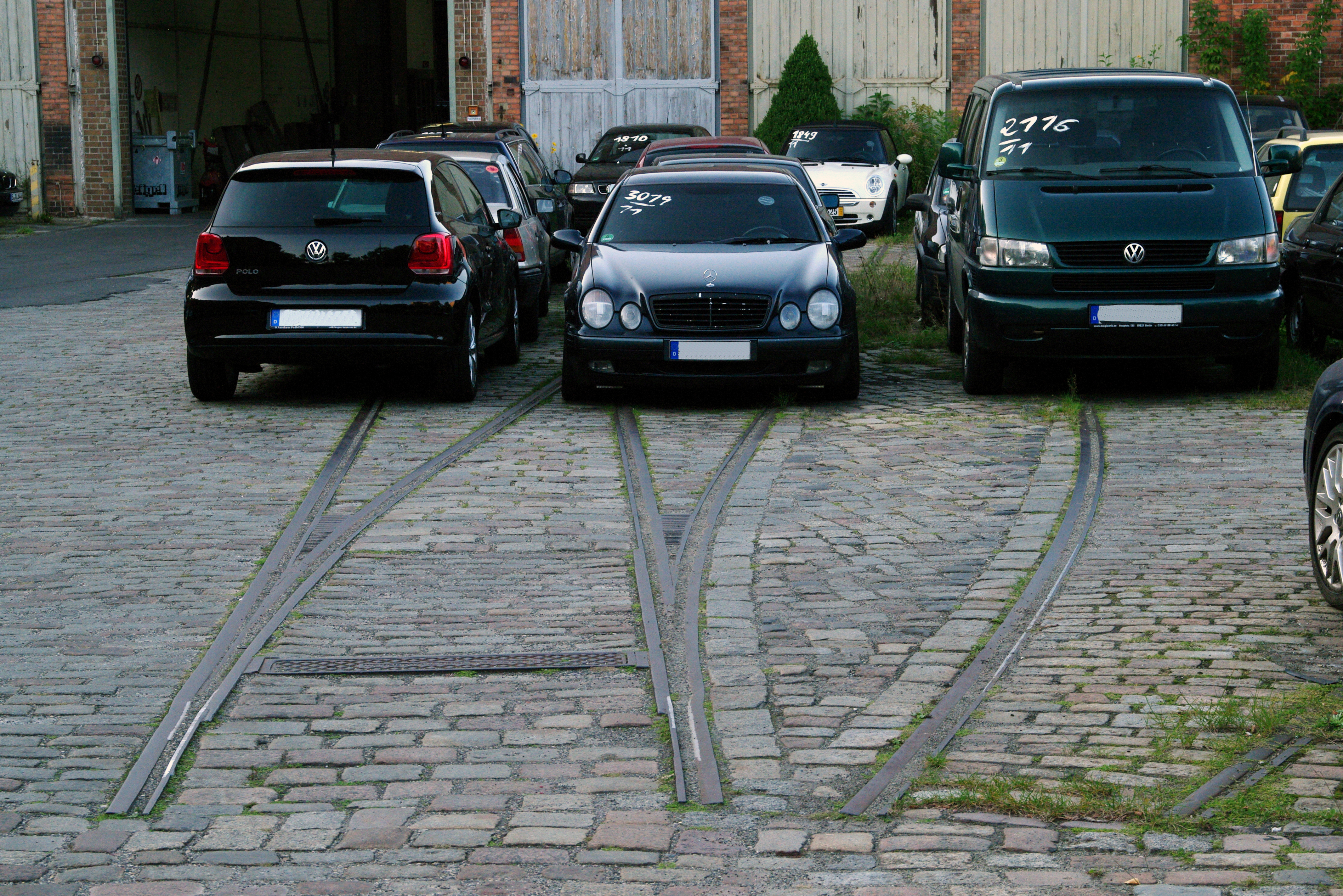 Cars waiting at former tramway depot in Berlin-Schöneberg. Now this part of the building is used by the Berlin Police to store (non-police-)cars.